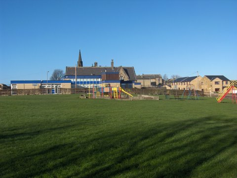 View of Clifton school and village hall across the recreation ground.